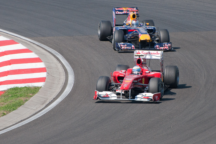 Sebastian Vettel chasing Fernando Alonso during 2010 Hungarian Formula 1 Grand Prix